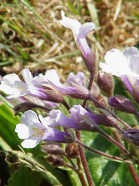 Species: Haberlea rhodopensis Family: Gesneriaceae Image No. 1